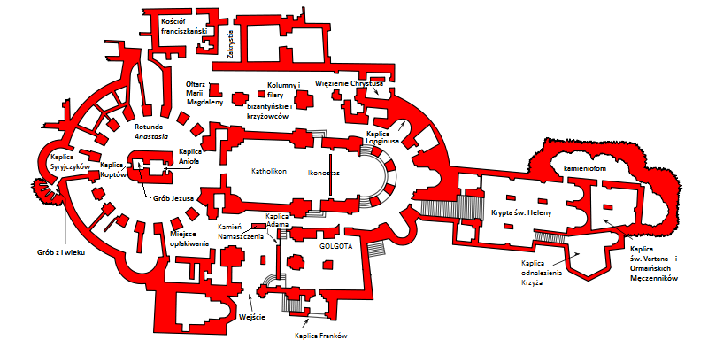 Church of the Holy Sepulchre. Floor plan of the present church.